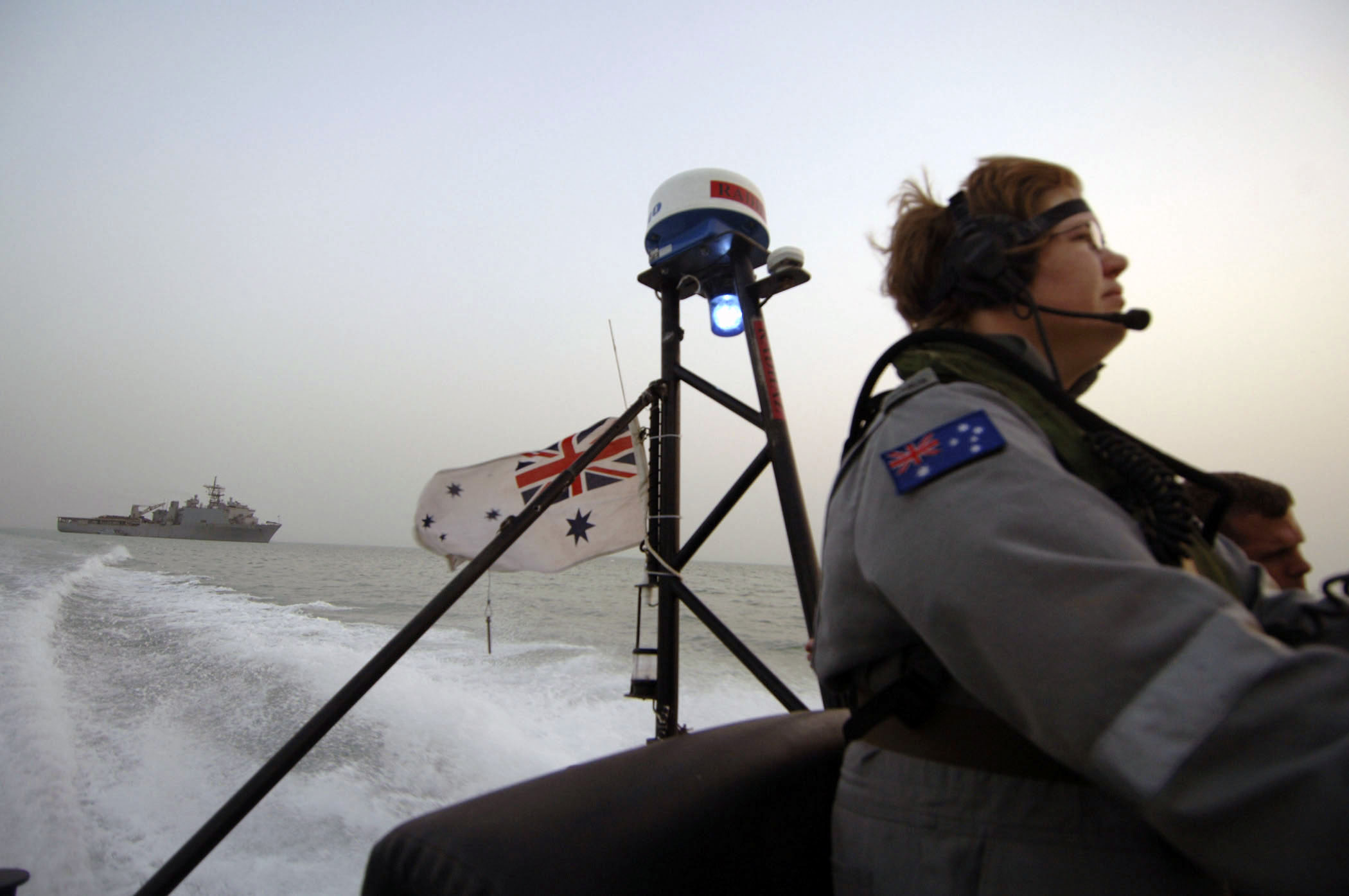 Persian Gulf (July 4, 2005) - Australian Petty Officer ET Tarah Clark, stationed aboard the guided missile armed frigate HMAS Newcastle (FFG 06), drives a Rigid Hull Inflatible Boat (RHIB) back to her ship after making a passenger transfer from USS Ashland (LSD 48). Newcastle is combining efforts with coalition forces under the flag of Commander Task Force Five Eight (CTF-58) in support of maritime security operations (MSO) by providing security in the area surrounding Khawr Al Amaya Oil Terminal (KAAOT) and Al Basrah Oil Terminal (ABOT). U.S. Navy photo by Photographer's Mate 1st Class Aaron Ansarov (RELEASED)